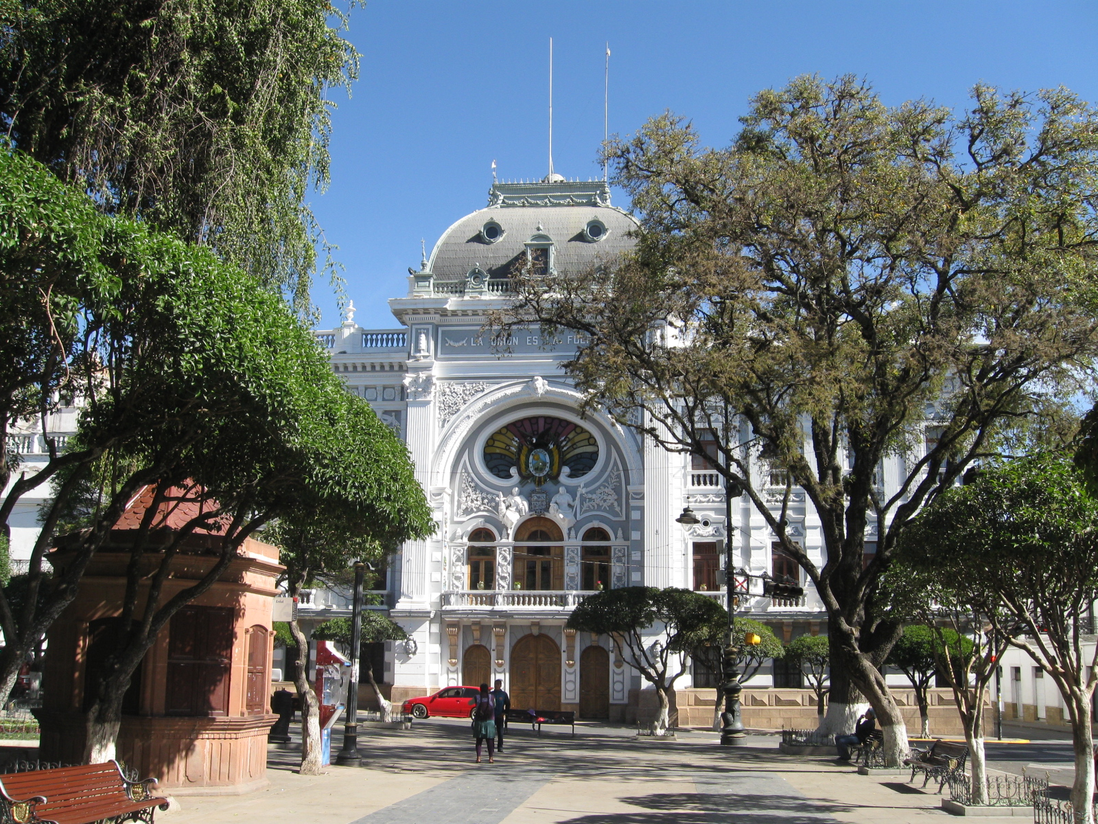 Sucre, the office of prefecture